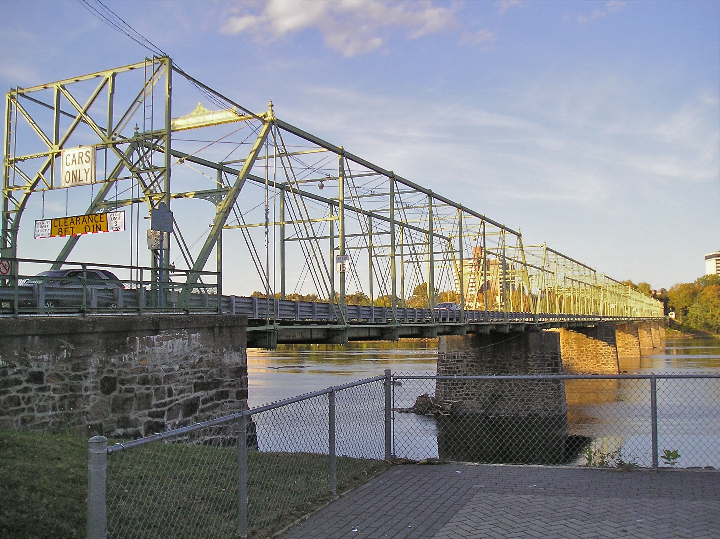 Detail shot of Calhoun Street Bridge, Morrisville, PA